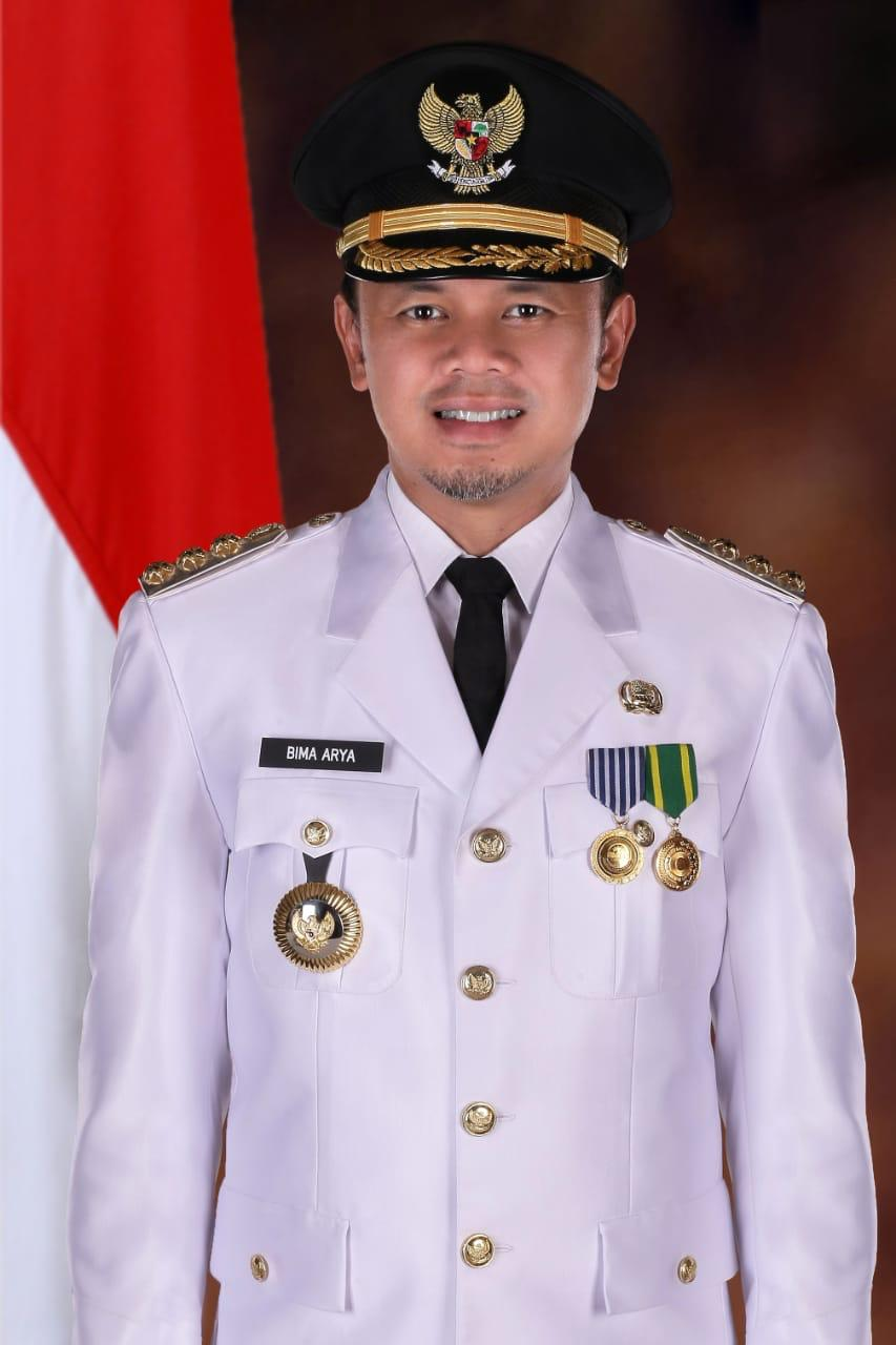 Bima Arya, Mayor of Bogor, West Java for the second period (2019-2024).